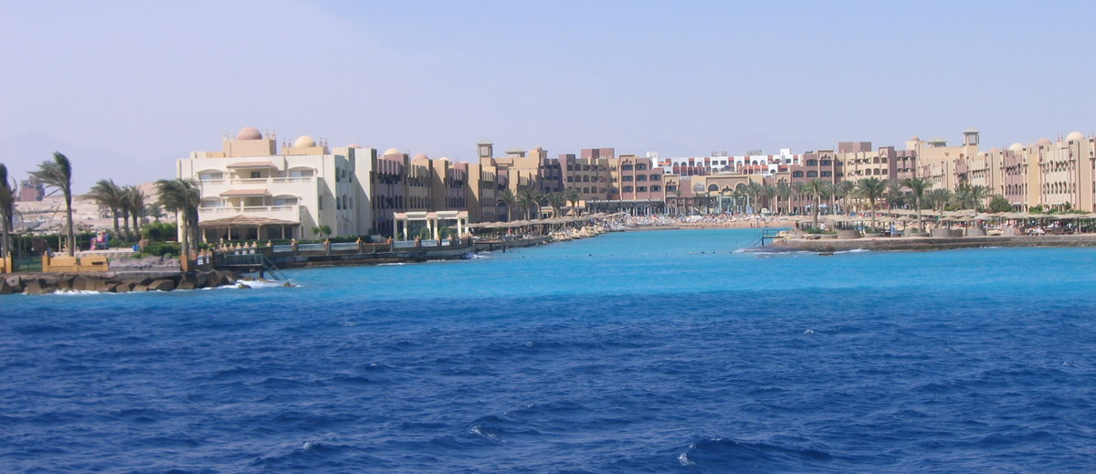 Hurghada view from Red sea, Egipt